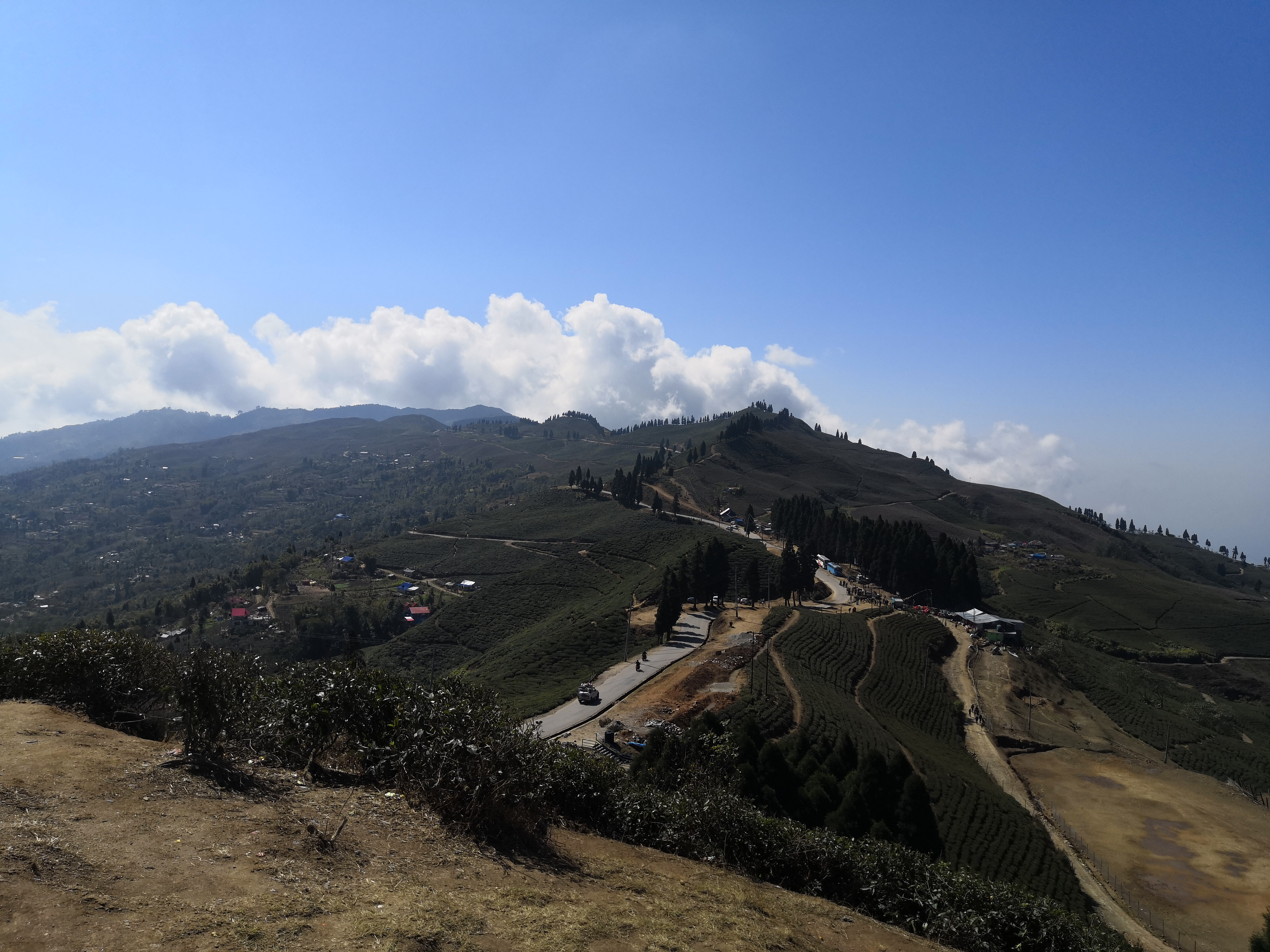 Kanyam=Ilam=Kanyam